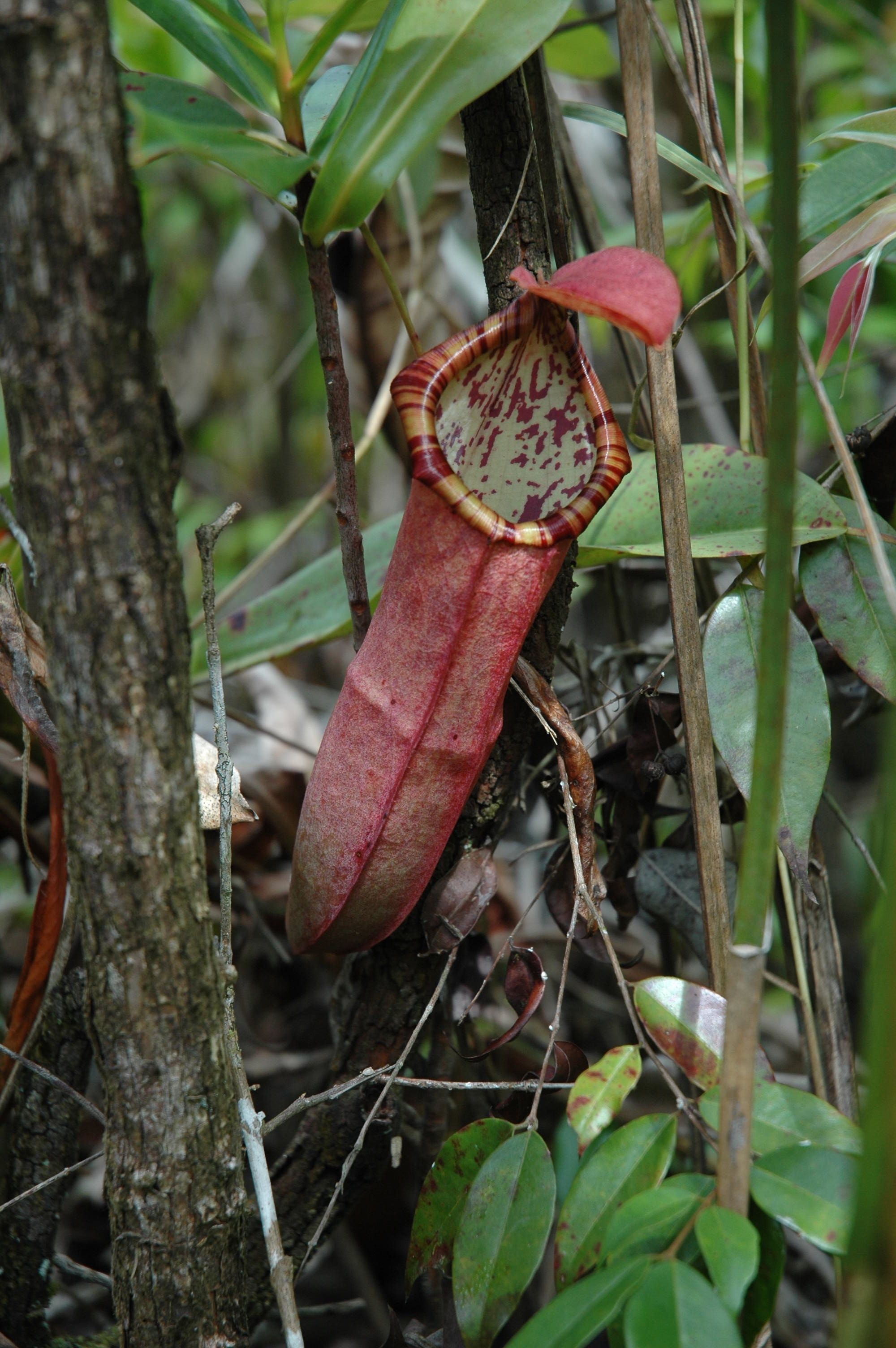 Nepenthes northiana X mirabilis Serian By Jeremiah Harris